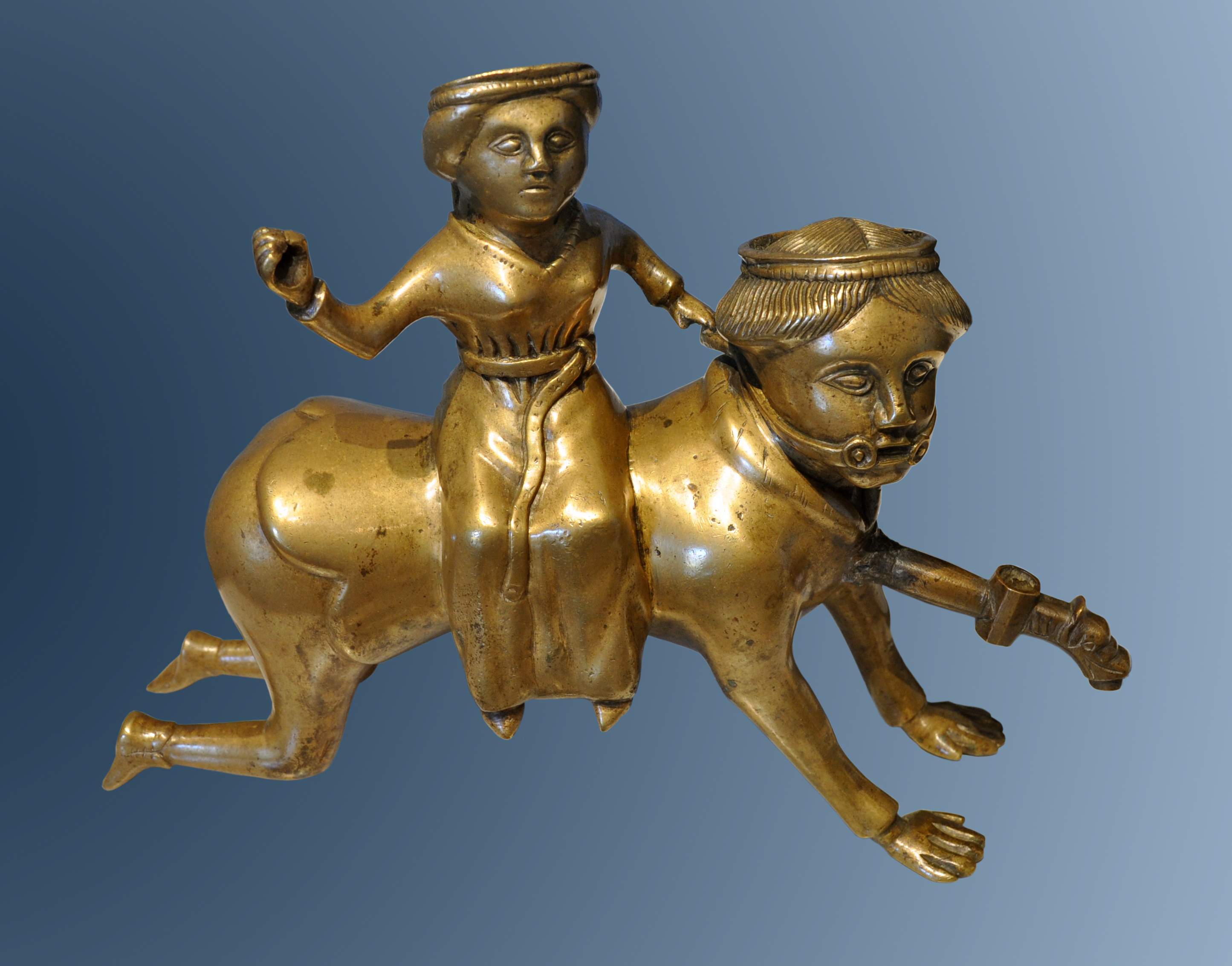 Aquamanile featuring Aristotle and Phyllis, brass, first half of the 15th century, Maasland (?). MRAH, Collection of European Decorative Arts, Jubilee Park, Brussels.